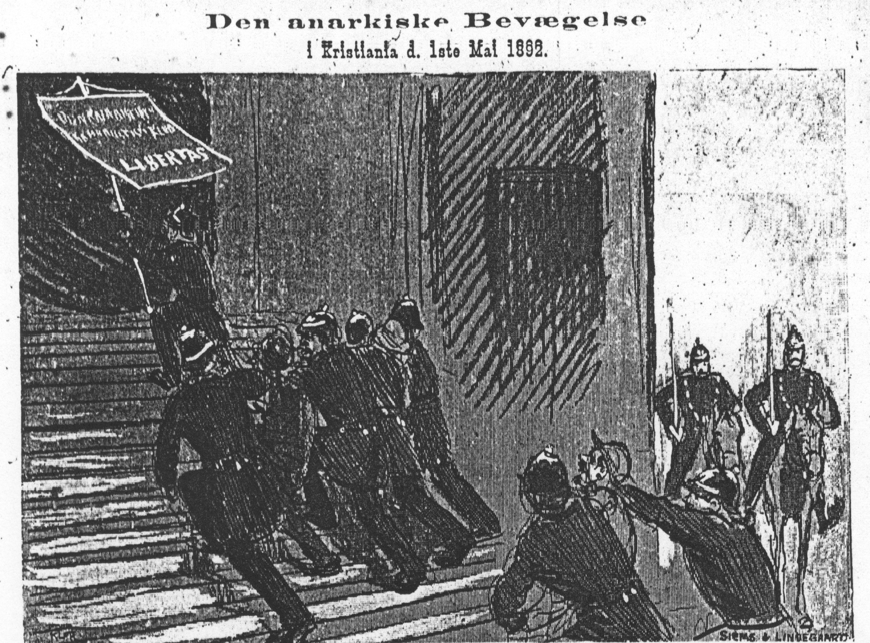 Vikingen 19/1892. JPG-format. Politiets beslagleggelse av anarkistfanen 1. mai 1892 (Police confiscate the anarchist banner in Oslo on the 1st of May 1892)